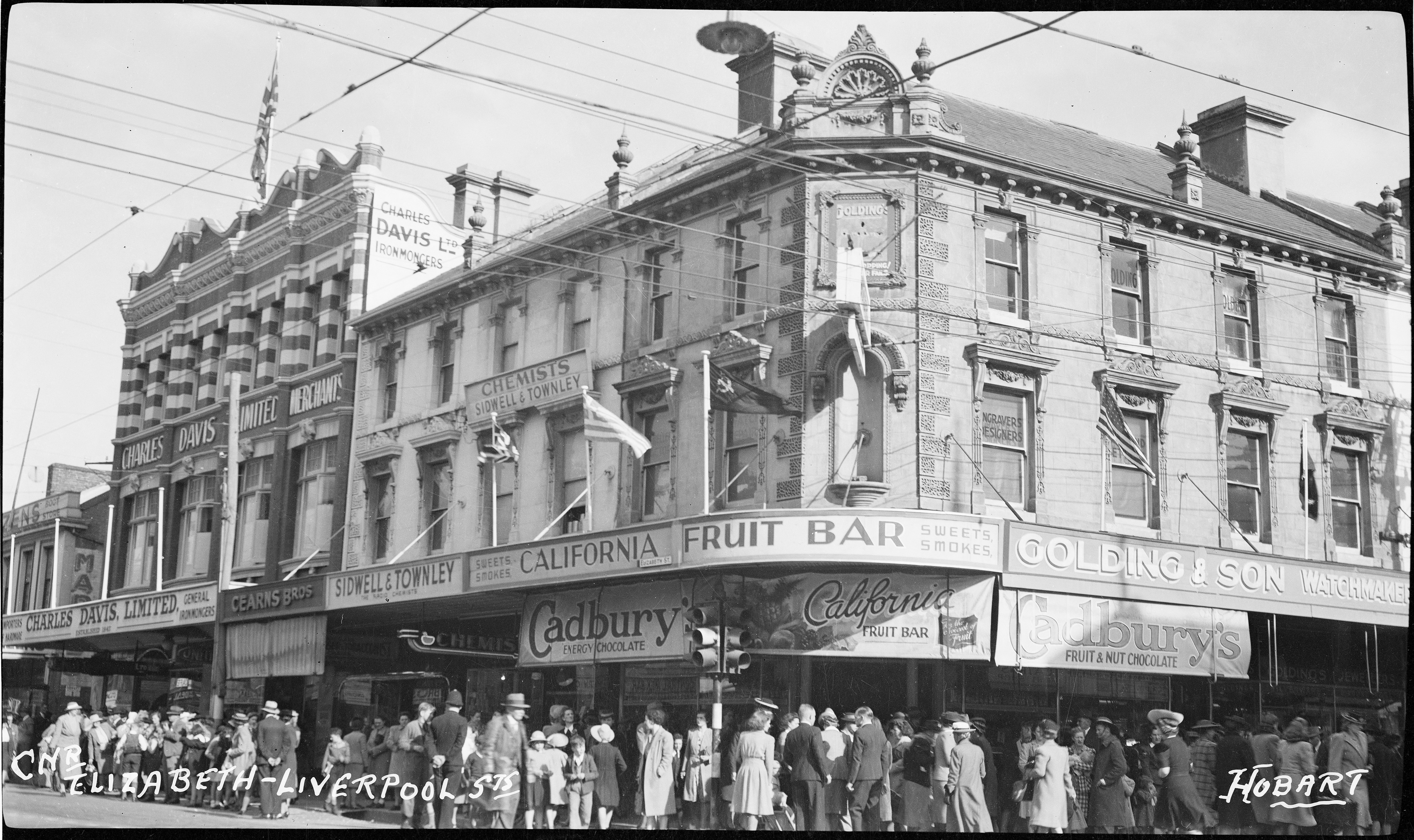 Tasmanian Archive and Heritage Office: NS1231/1/45 Images from the TAHO collection that are part of The Commons have ‘no known copyright restrictions’, which means TAHO is unaware of any current copyright restrictions on these works. This can be because the term of copyright for these works may have expired or that the copyright was held and waived by TAHO. The material may be freely used provided TAHO is acknowledged; however TAHO does not endorse any inappropriate or derogatory use.